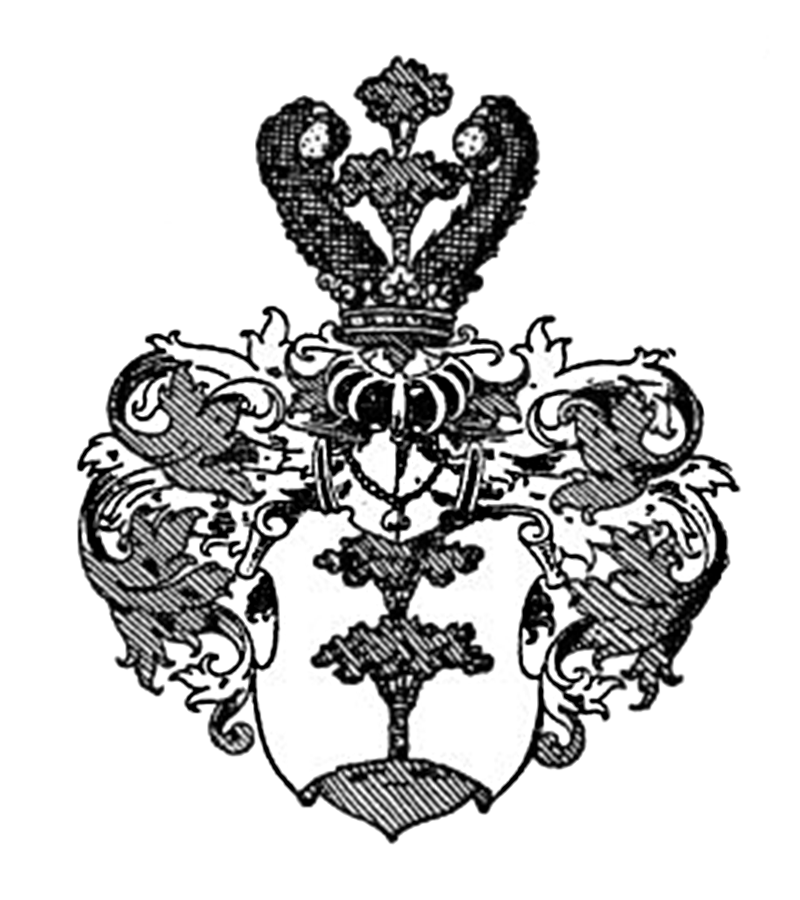 Coat of arms of von Bercken